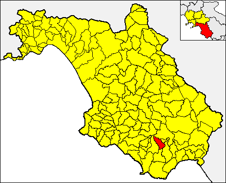 Locator map of the municipality of Laurito (red) within the Province of Salerno